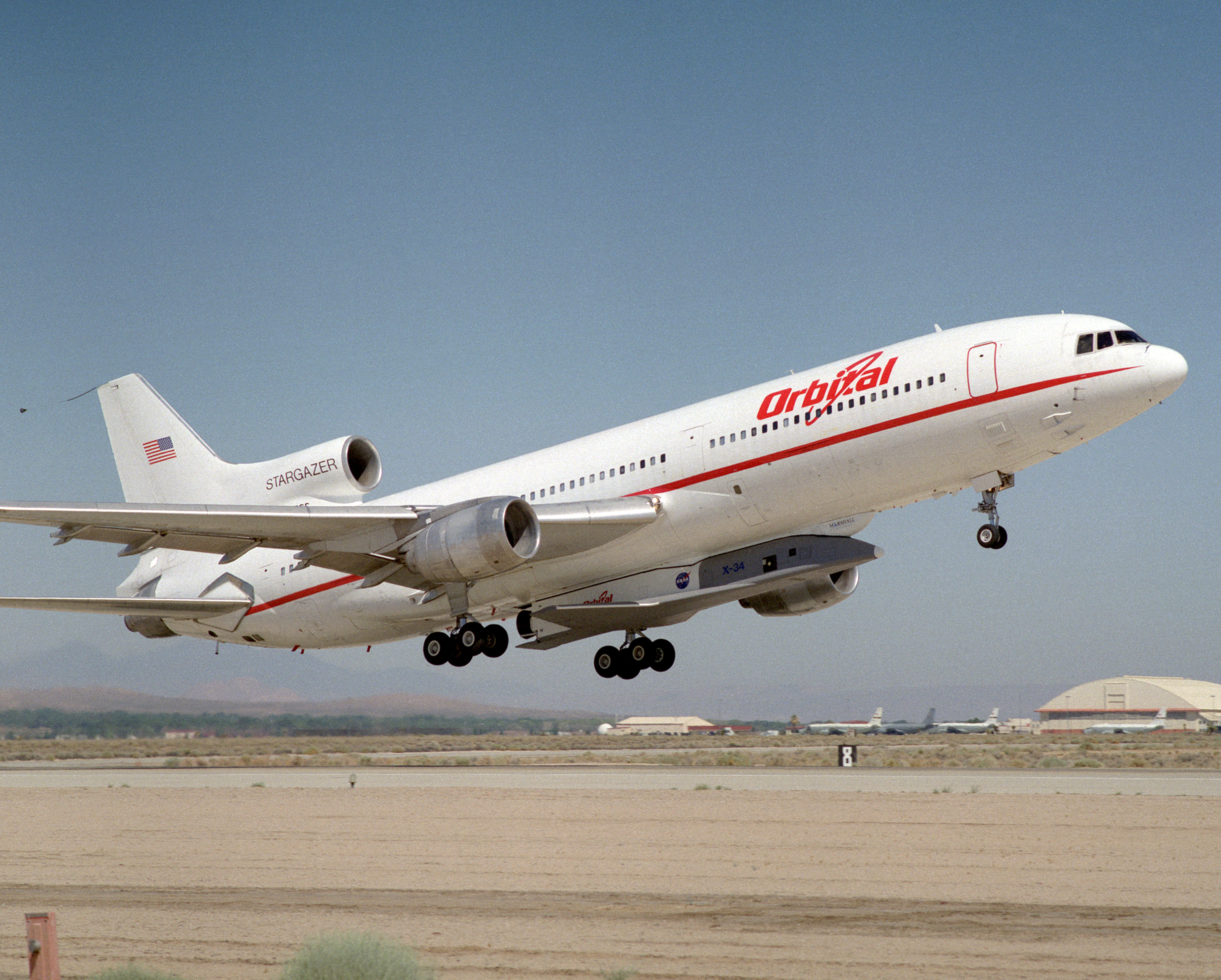 Mounted under the fuselage of a modified Lockheed L-1011, the Orbital Sciences X-34 technology demonstrator is taken aloft for its first captive carry flight.